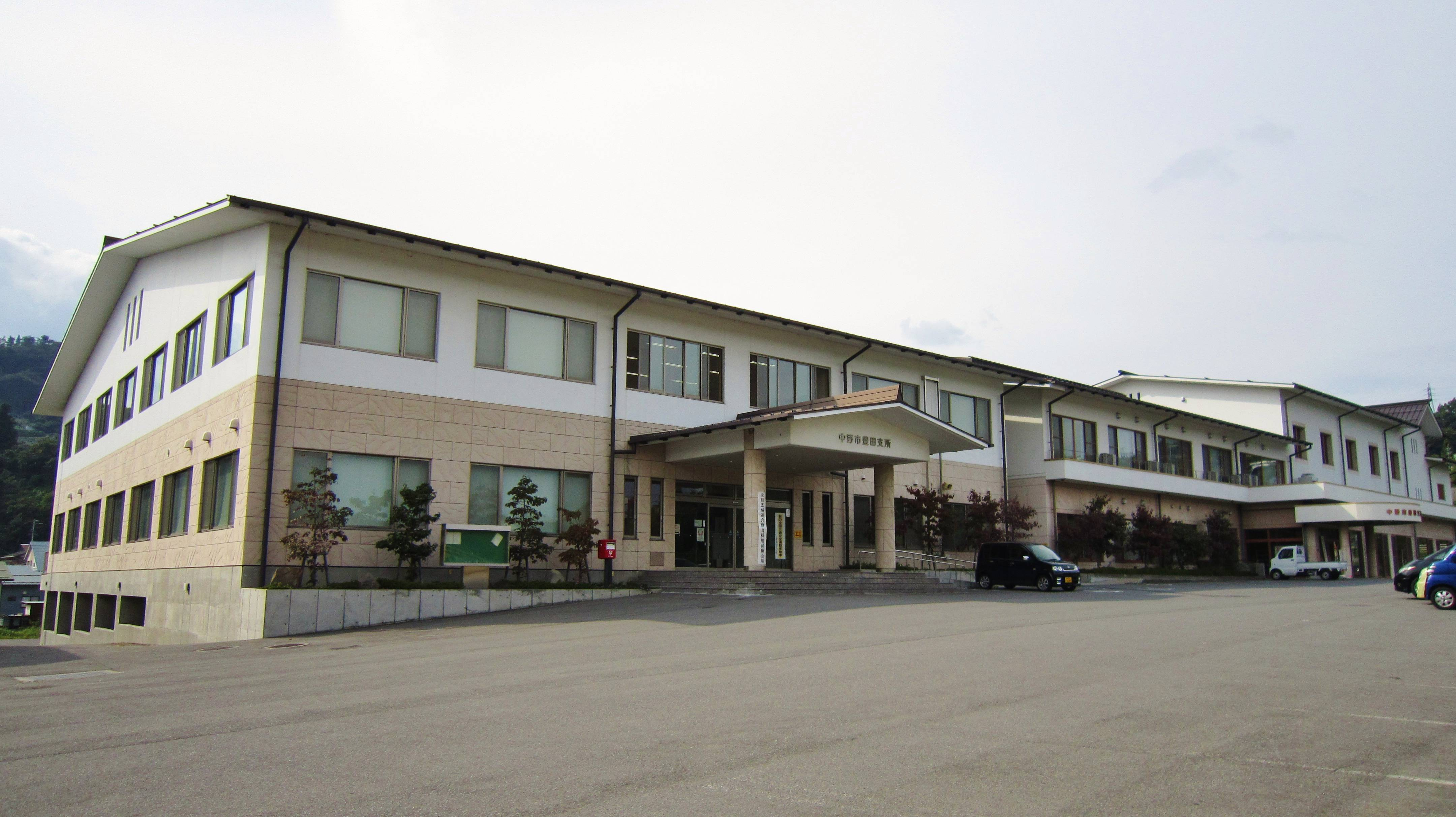 Nakano city Toyota branch office.